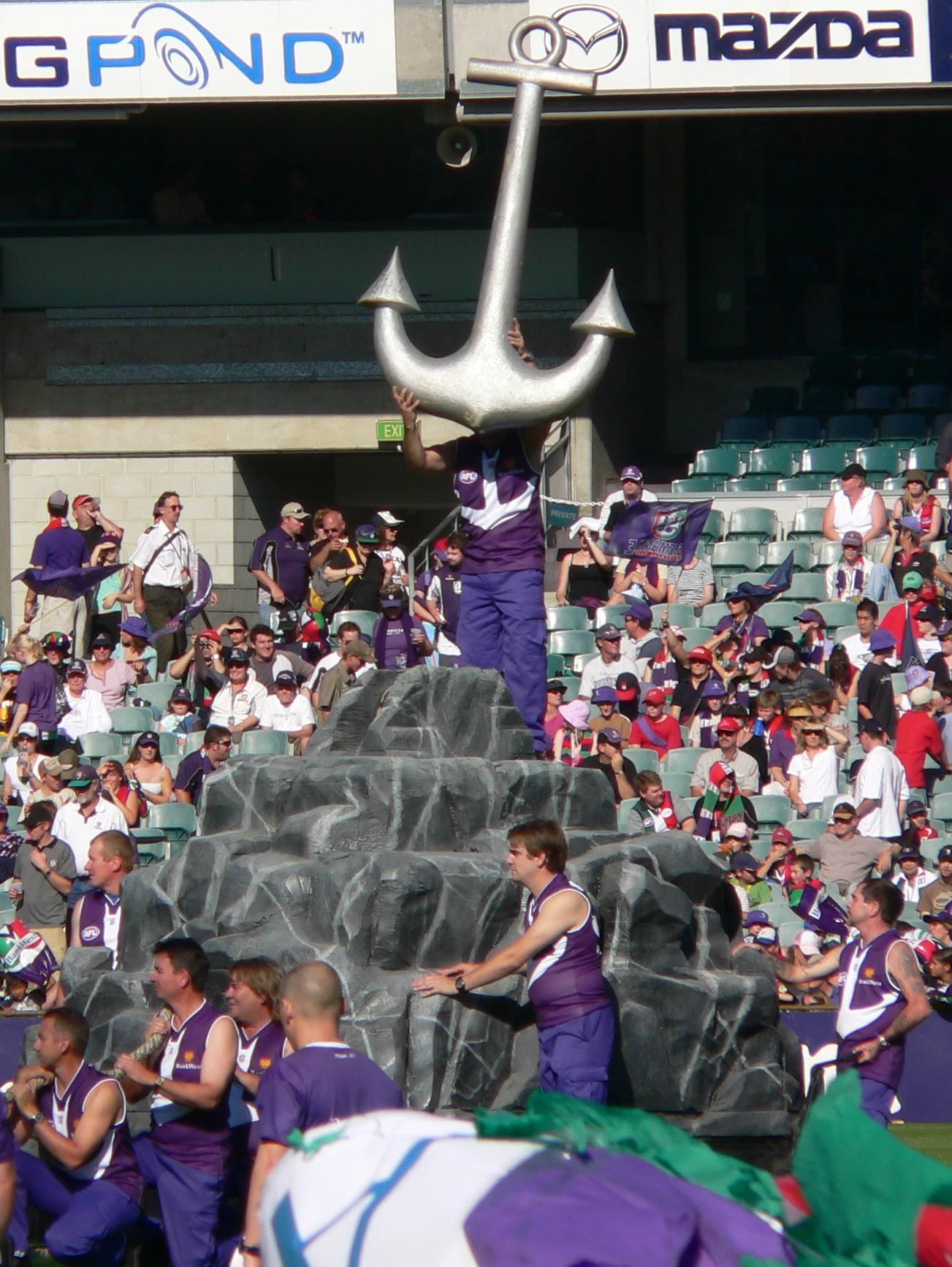 Fremantle Football Club pregame anchor ceremony